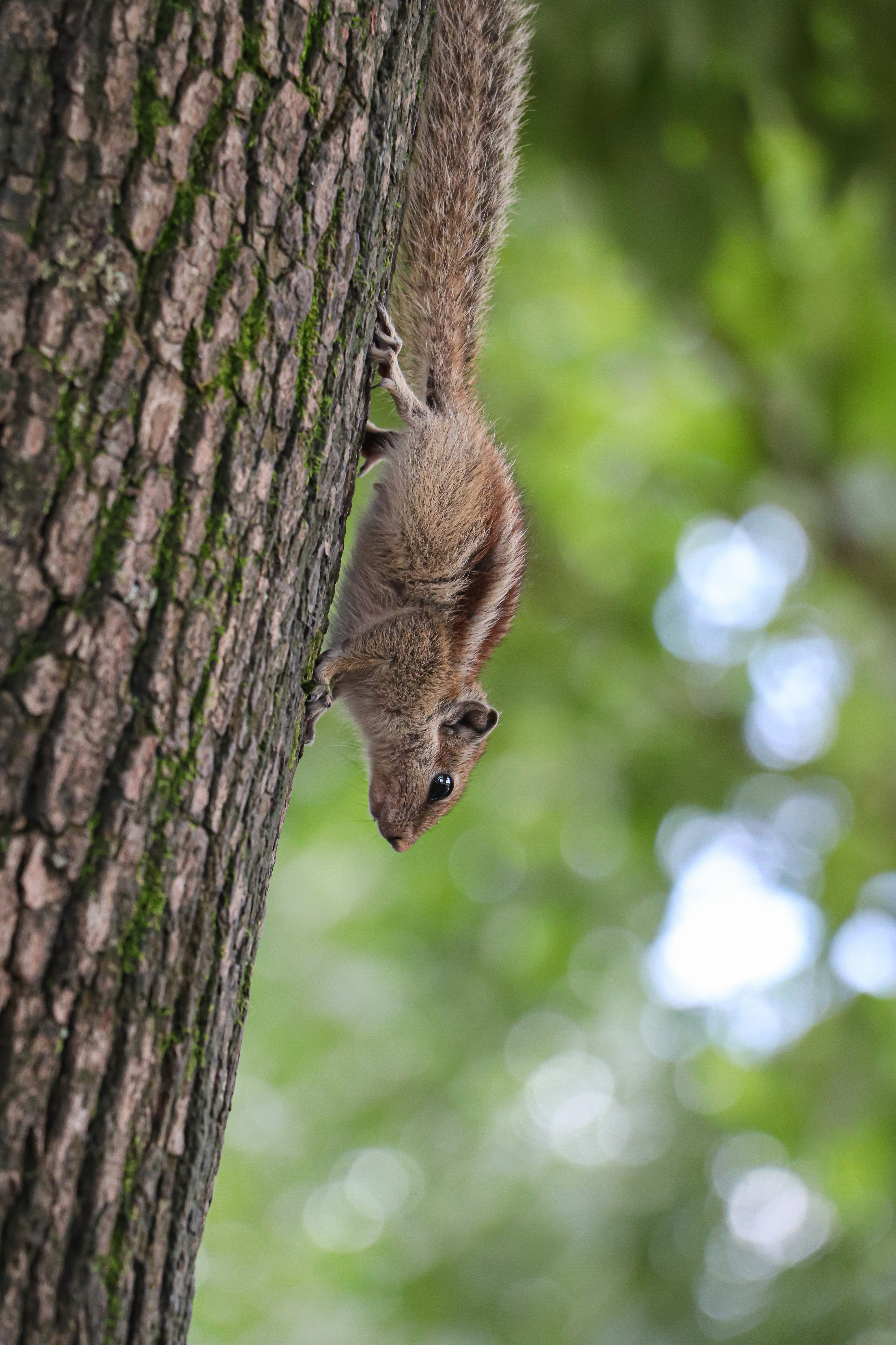 A northern palm squirrel, also known as the five striped palm squirrel at Sankha Park, Chappal Karkhana, Kathmandu.